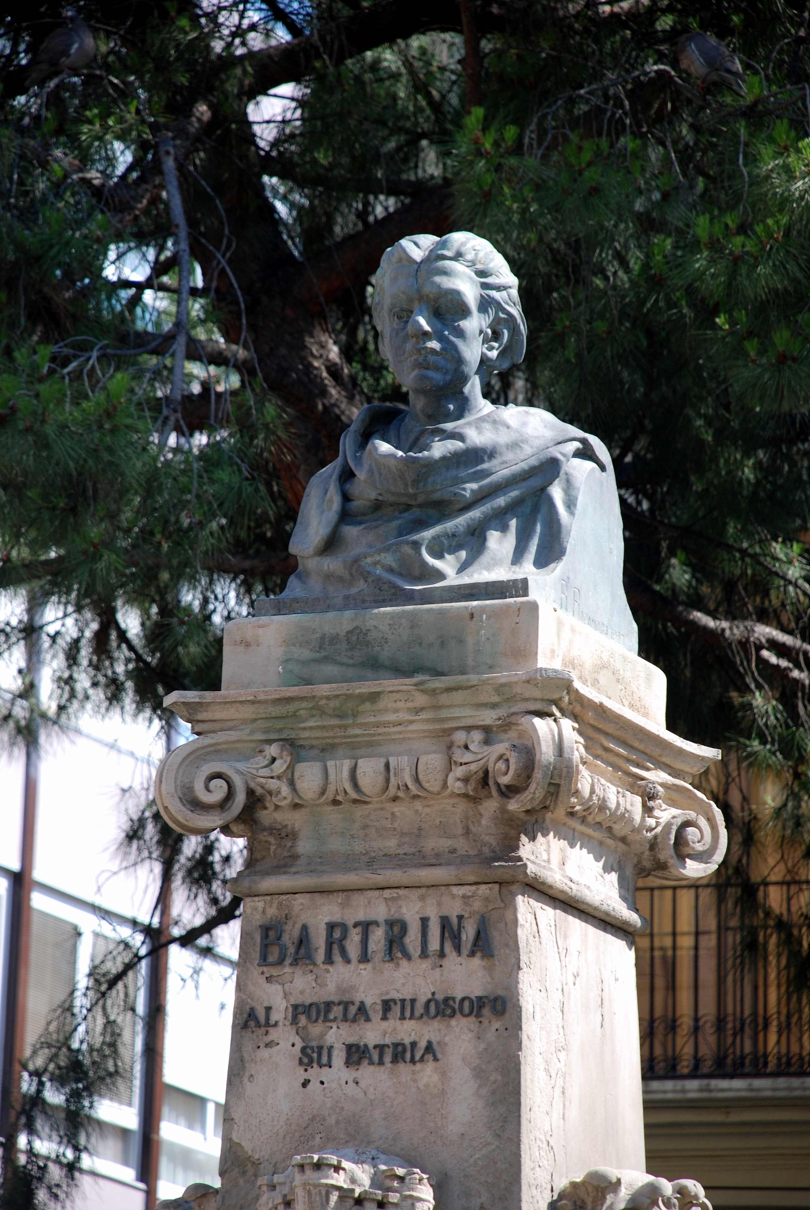 Monument to Joaquín Bartrina i Aixemús